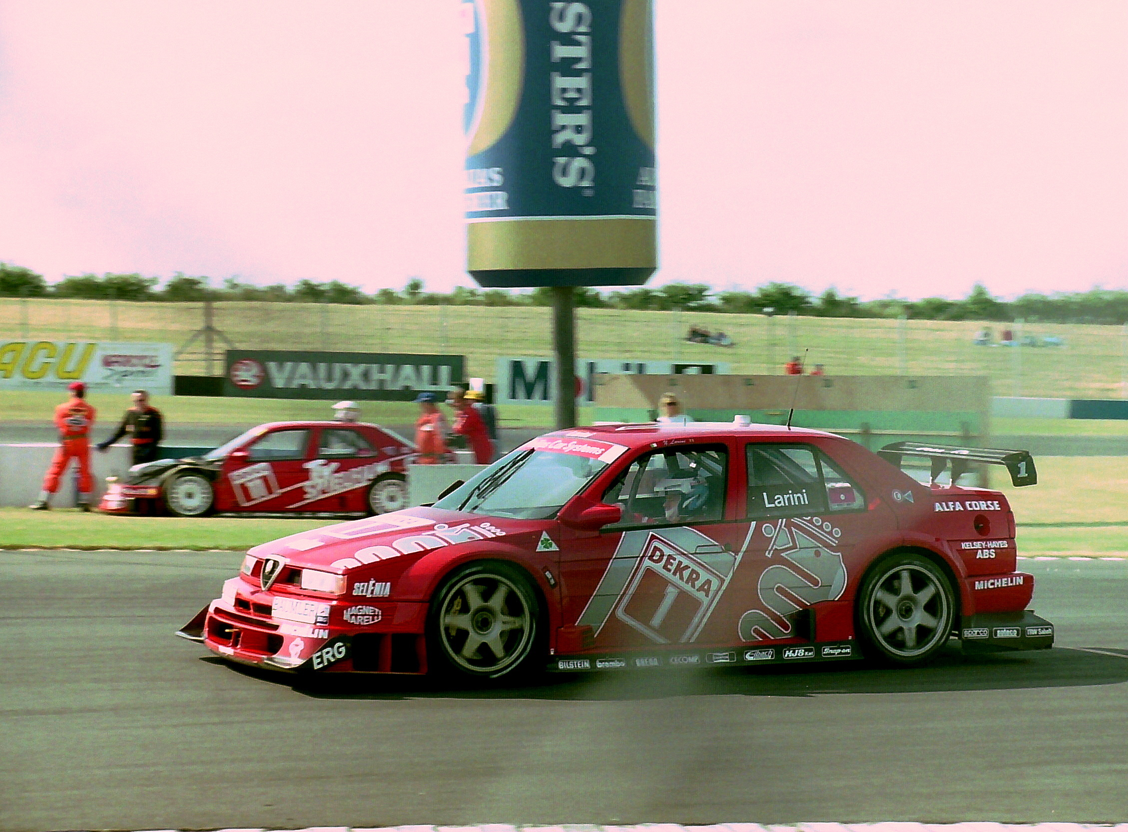 Nicola Larini - Alfa Corse - Alfa Romeo 155 V6 TI 94 German Touring Car Championship - Donington Park July 17 1994